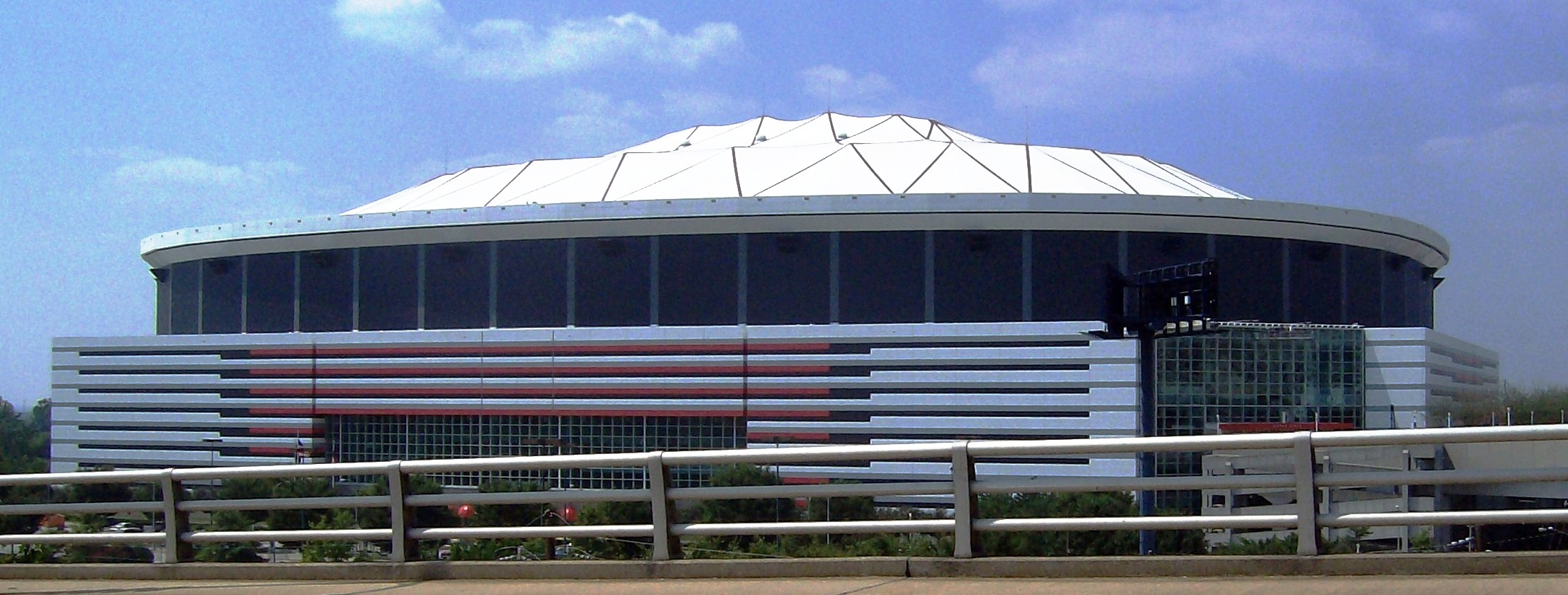 The Georgia Dome was the site of the Final Four and National Championship in 2007. The Georgia Dome, where Lewis plays his home games.